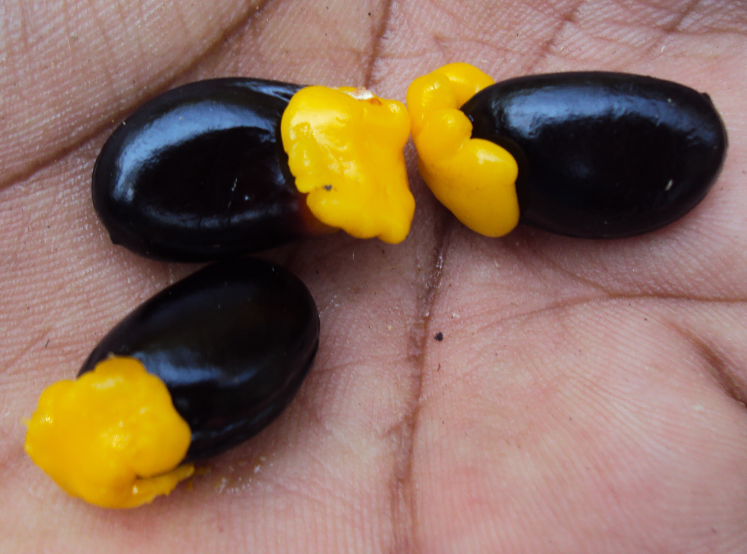 Connarus paniculatus